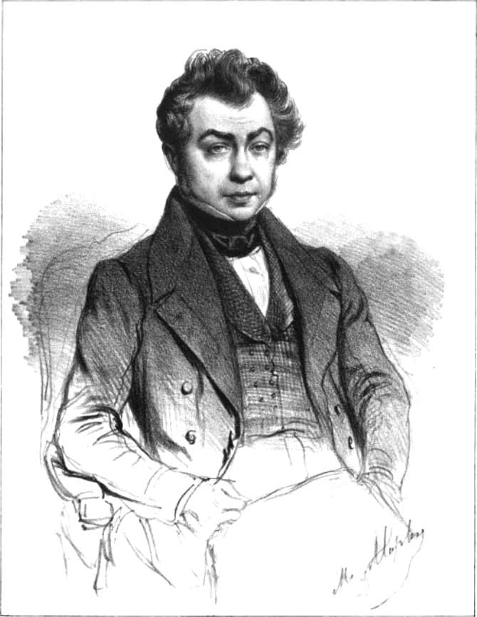 Drawing of Charles Varin (1798-1869), French playwright